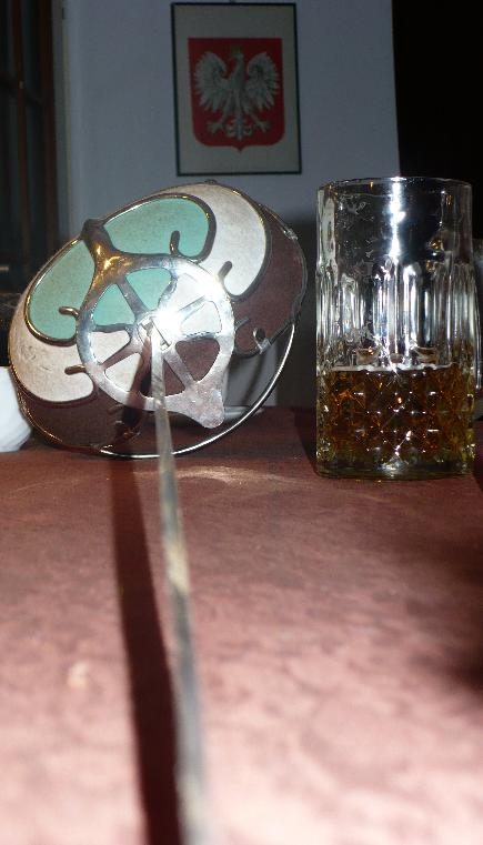 symbols of Corporation Sarmatia